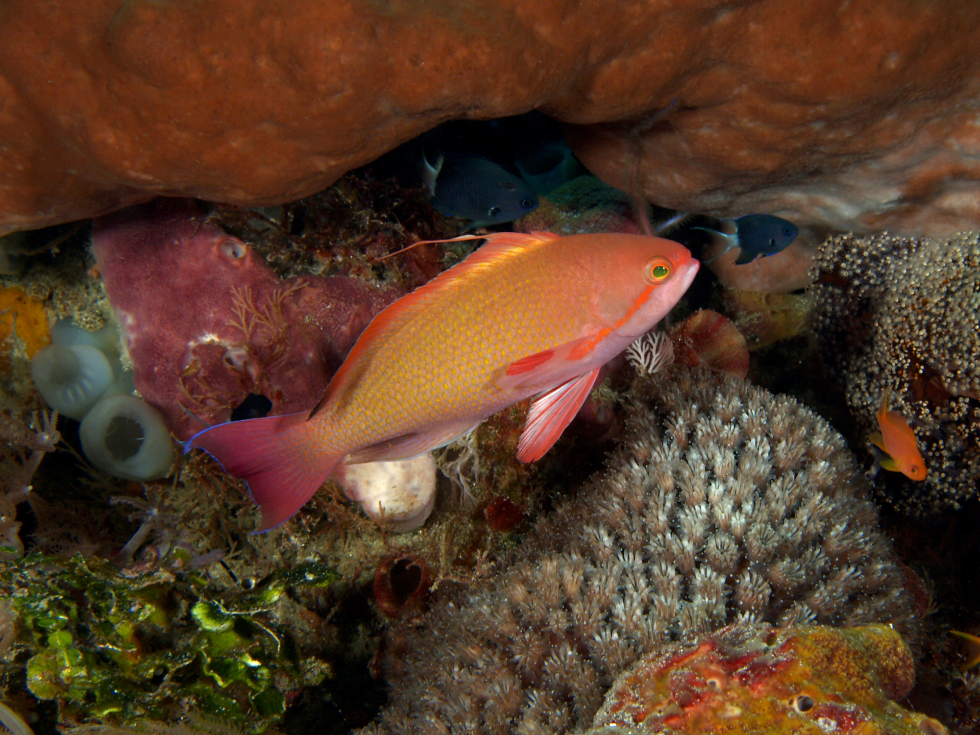 Pseudanthias squamipinnis (Scalefin anthias) male